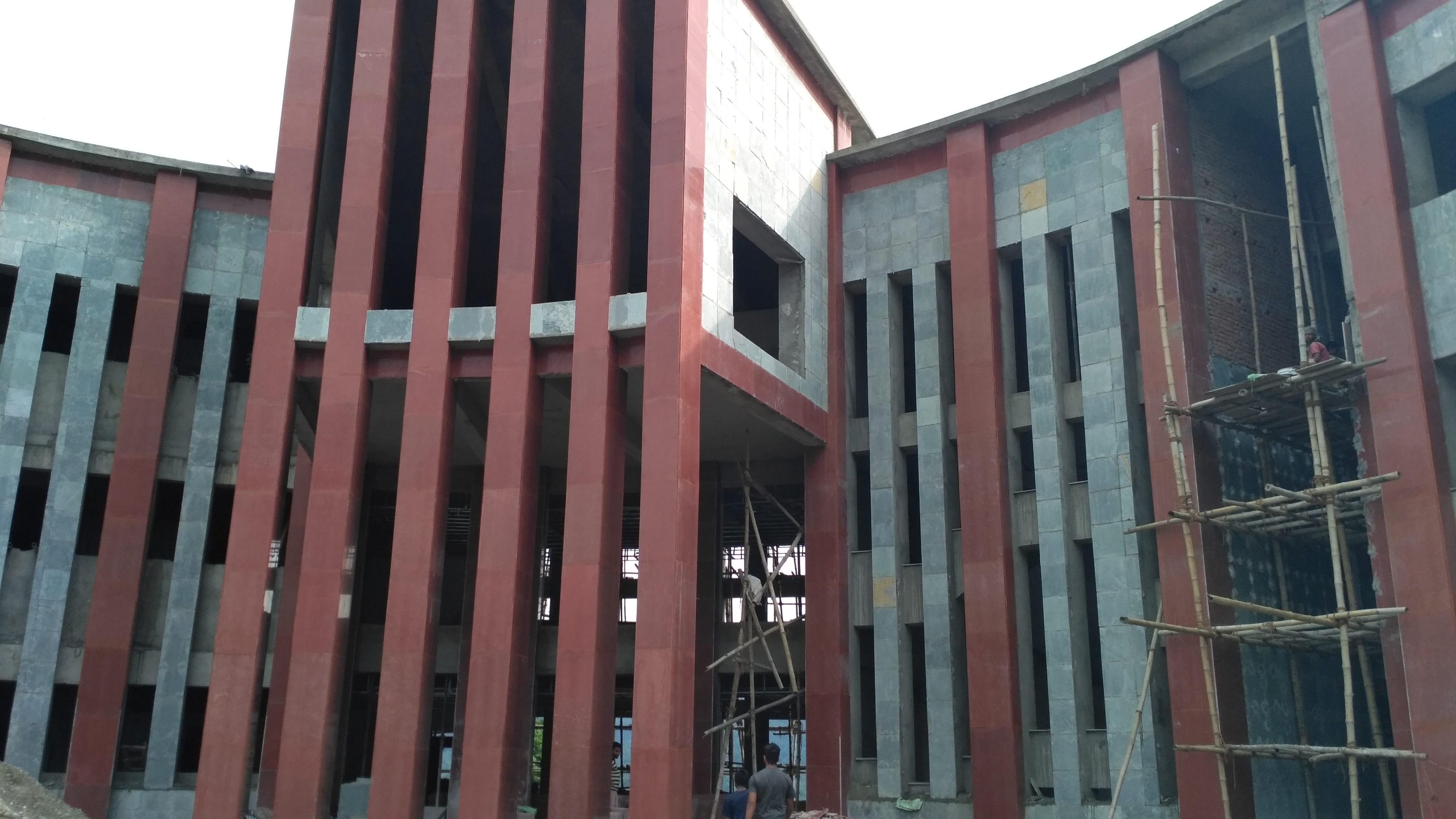 Administrative block at NIT Arunachal Pradesh's upcoming Jote campus